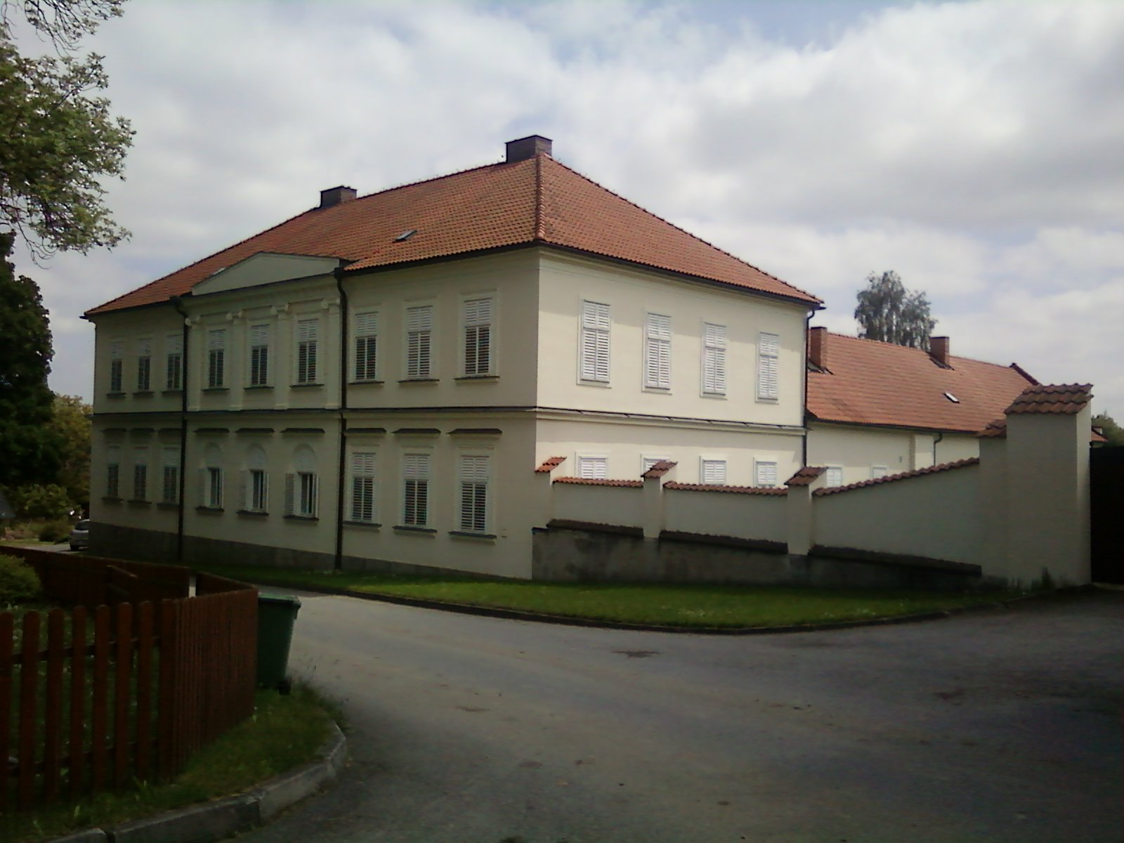 Stav zámku Libkova Voda v roce 2013.